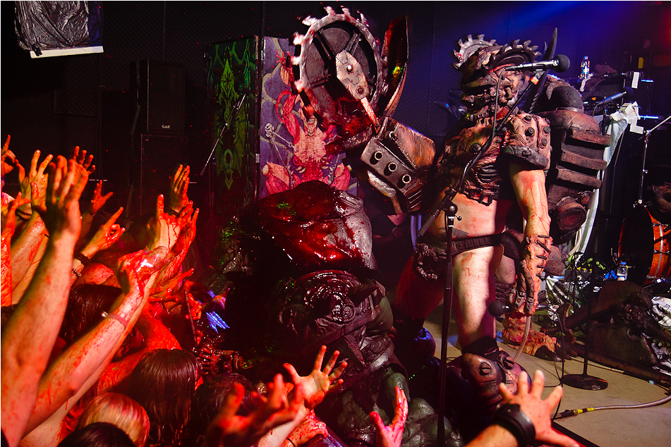 Gwar in SO36